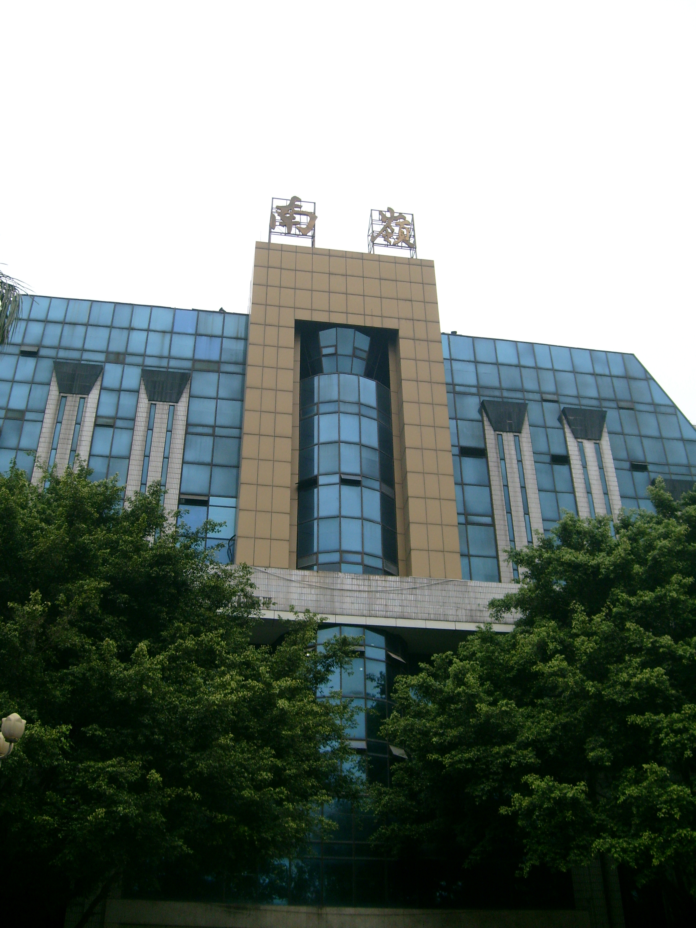 Naling Village,Shenzhen,China